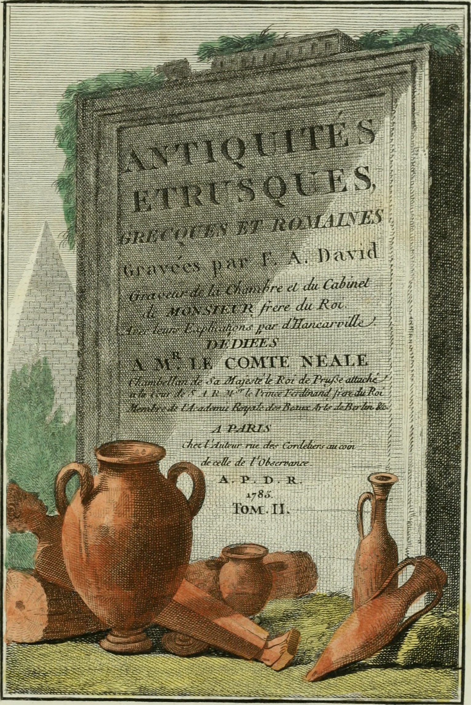 Title: Antiquités étrusques, grecques et romaines : ou les beaux vases étrusques, grecs et romains, et les peintures rendues avec les couleurs qui leur sont propres Year: 1787 (1780s) Authors: Hancarville, Pierre d', 1719-1805 David, François-Anne, 1741-1824 Subjects: Hamilton, William, Sir, 1730-1803 Hamilton, William, Sir, 1730-1803 Vases, Greco-Roman Vases, Etruscan Vases, Greek Sculpture, Greek Vase-painting Classical antiquities Publisher: A Paris : Chez l'auteur, F.A. David, rue Pierre-Sarrazin ... Text Appearing Before Image: ' Text Appearing After Image: ANTIQUITES ÉTRUSQUES, GRECQUES ET ROMAINES, Ou les beaux Vases Étrusques , Grecs etRomains , et les Peintures rendues avec lescouleurs qui leur sont propres , Gravées par F. A. DAVID, avec ï.extr.s explications,Par dHANCARVILLE. TOME DEUXIÈME. A PARIS, Chez IAutbur, F. A. DAVID,rue Pierre-Sarrazin , n°. i3. M. DCC. LXXXVII. ANTIQUITES ÉTRUSQUES, GRECQUES ET ROMAINES.TOME SECOND. -LN É avec une grande quantité de besoins, lhomme qui existedans le présent, tient à lavenir par ses espérances , et au passéqui nest plus par le souvenir. Desiranc de jouir, il voudroitétendre son existence dans tous les temps , et paroit dans sonambition , souhaiter dêtre le contemporain de tout ce qui aété, et de tout ce qui sera. Le discours quil a inventé , lécri-ture, la sculpture et le dessin, lui servent à rappeller lamémoire du passé, et peuvent étendre celle du présent danslavenir le plus reculé; car ces arts, monumens précieuxde lindustrie humaine , tendent tous égalementantiquitesetrusq02hanc